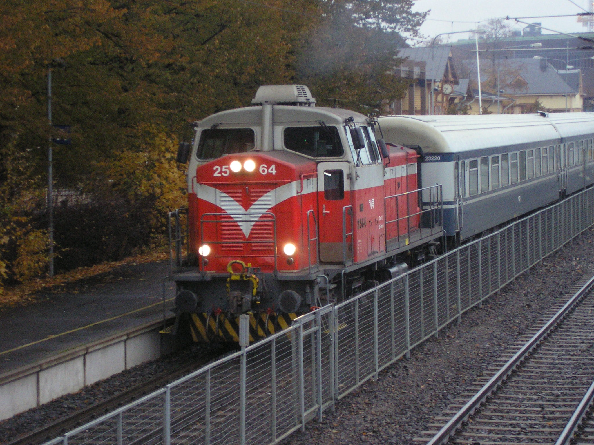 Regional train 445 hauled by VR Class Dv12 no. 2564 from Jyväskylä to Vaasa at Jyväskylä railway station